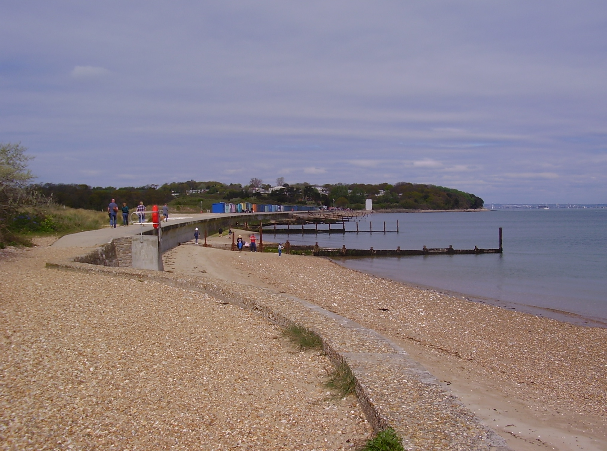 The seafront at St Helens, Isle of Wight, UK